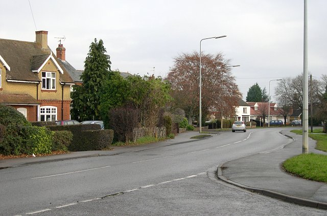 West Road, Bourne. Early 20th century ribbon development housing along the main road into Bourne from the West.